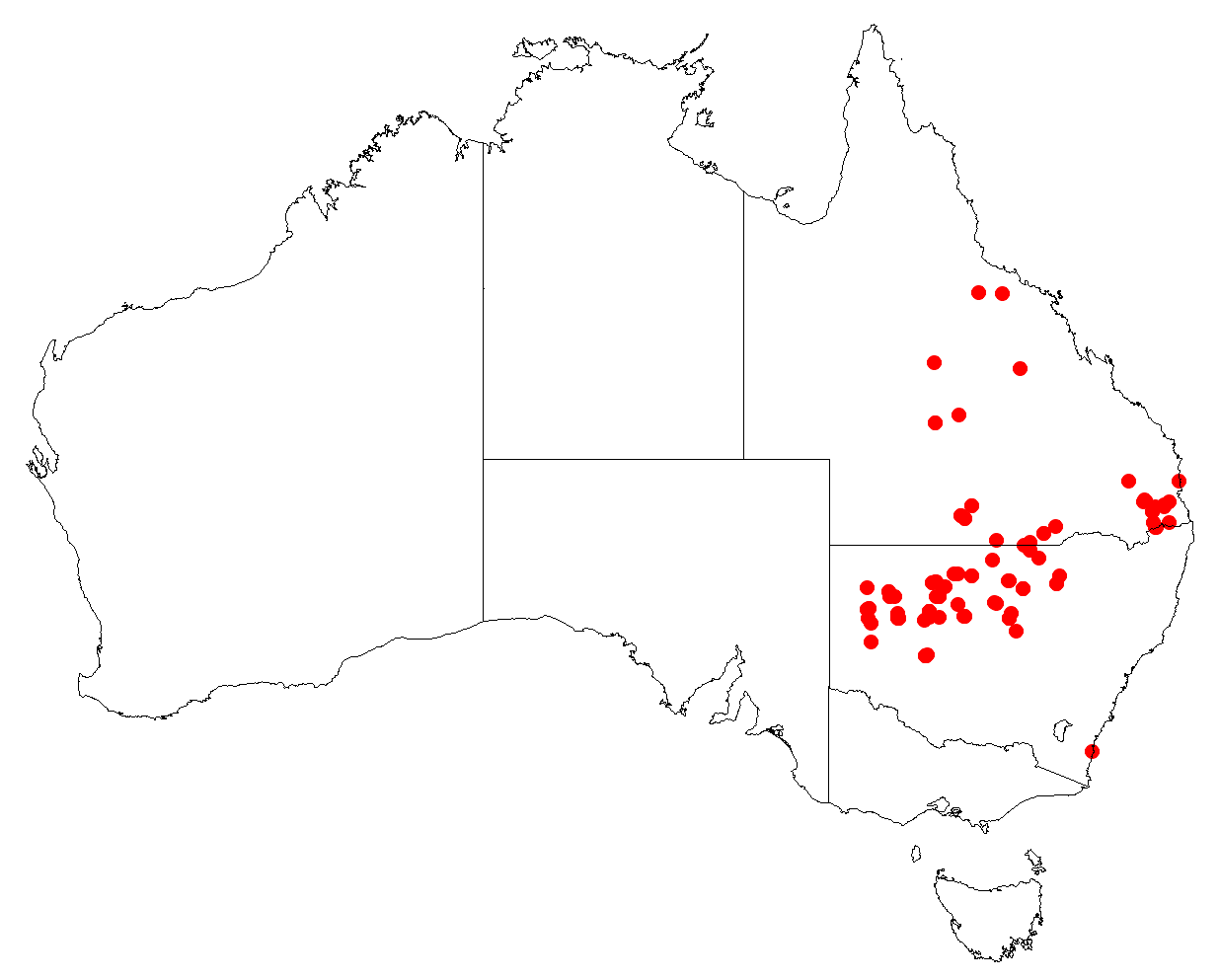 Australian distribution of Amyema lucasii based on download from Australasian Virtual Herbarium May 9, 2018